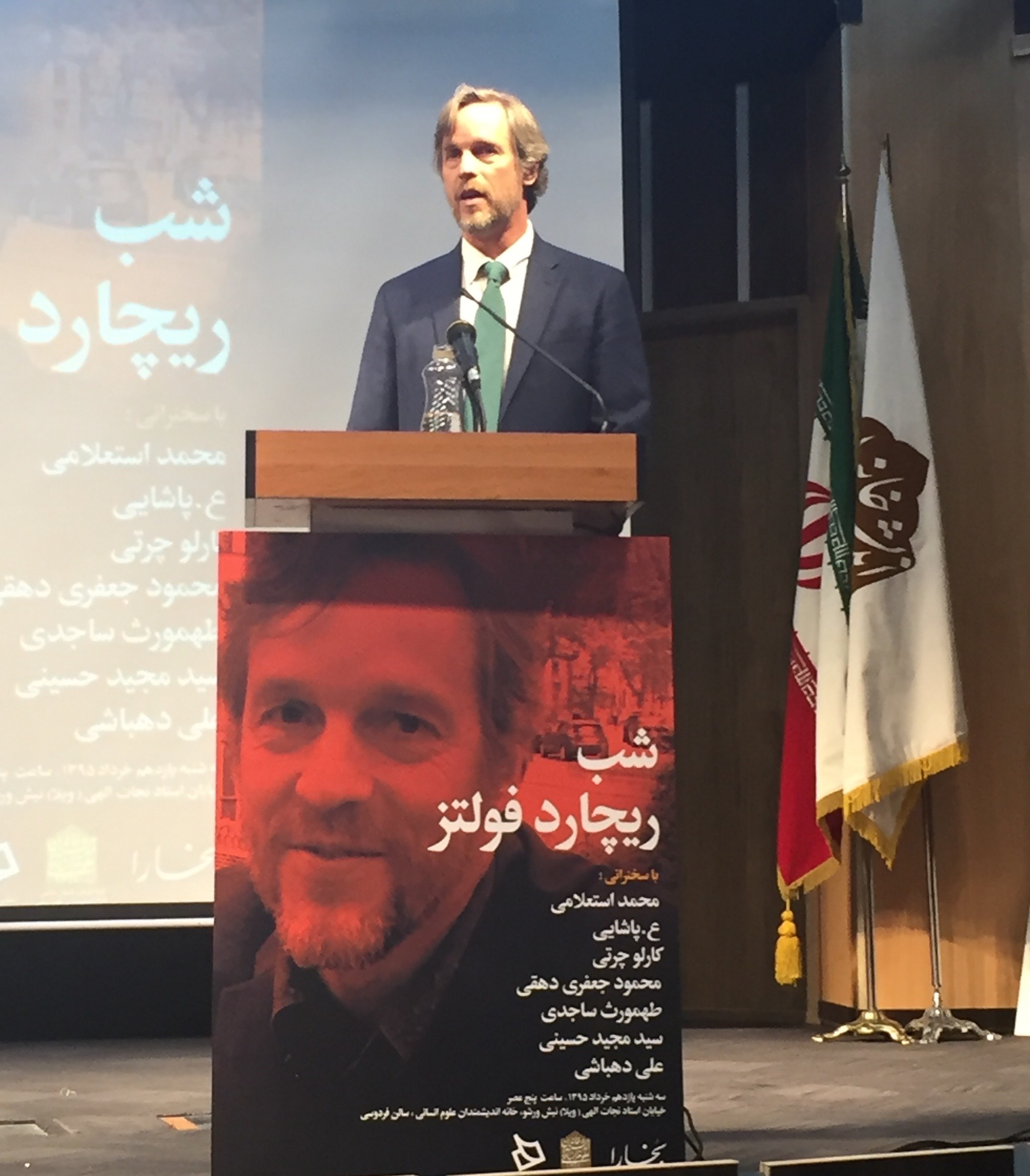 Bukhara night, Tehran 31 May 2016